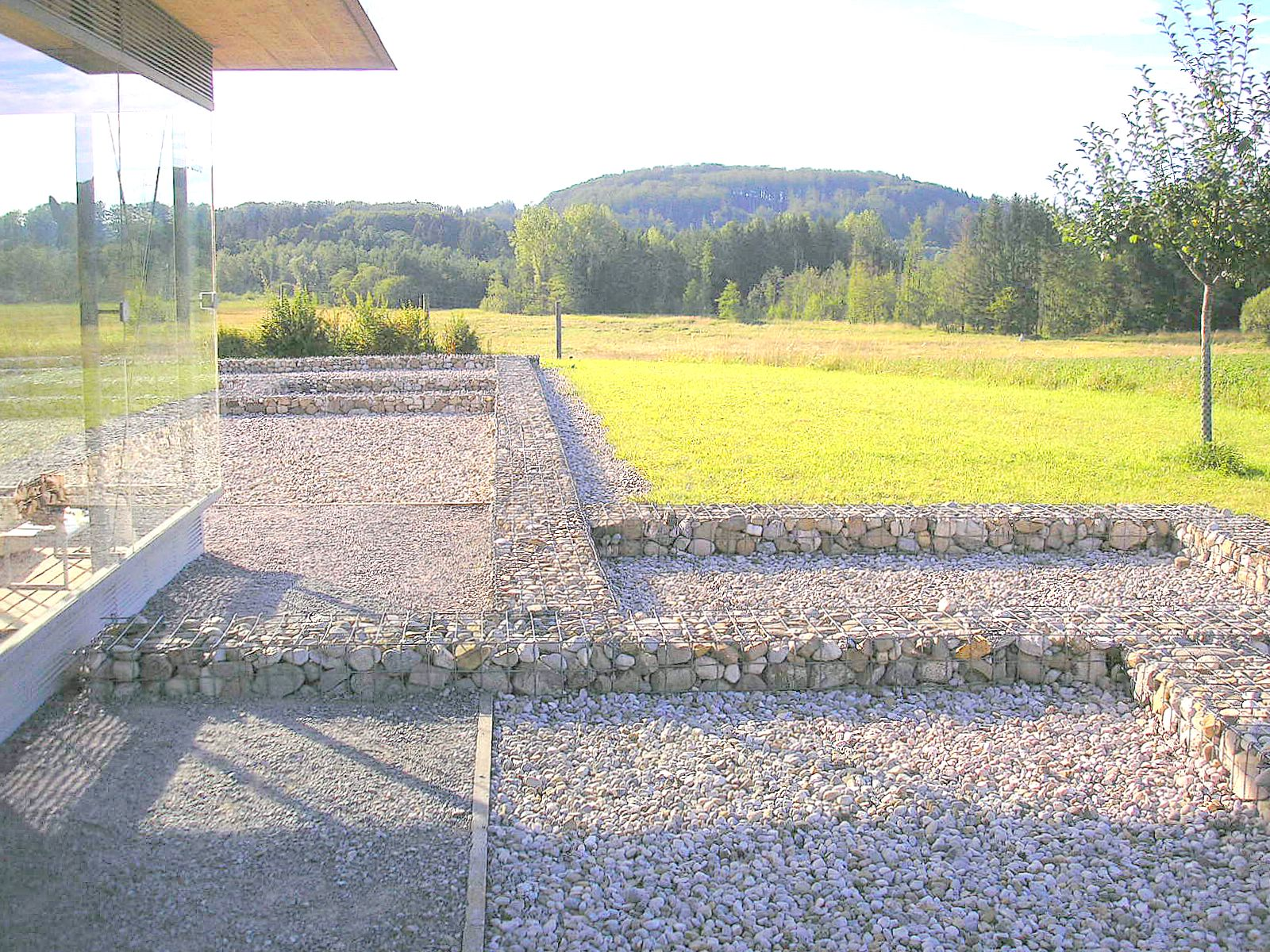 Roman Villa rustica near Leutstetten (Stadt Starnberg, Upper Bavaria, Germany). Looking north to the Karlsberg